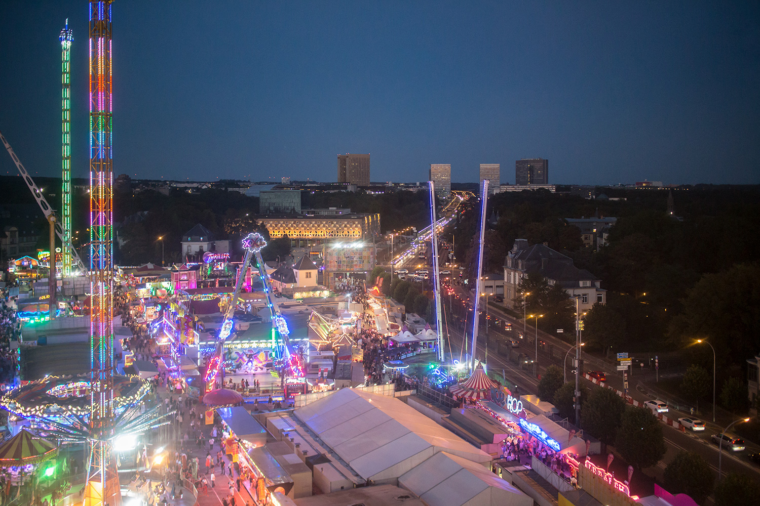 Schueberfouer funfair in Luxembourg, 2016